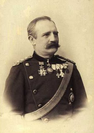 Danish Colonel (oberst) Elisæus Janus Sommerfeldt (1842-1903)